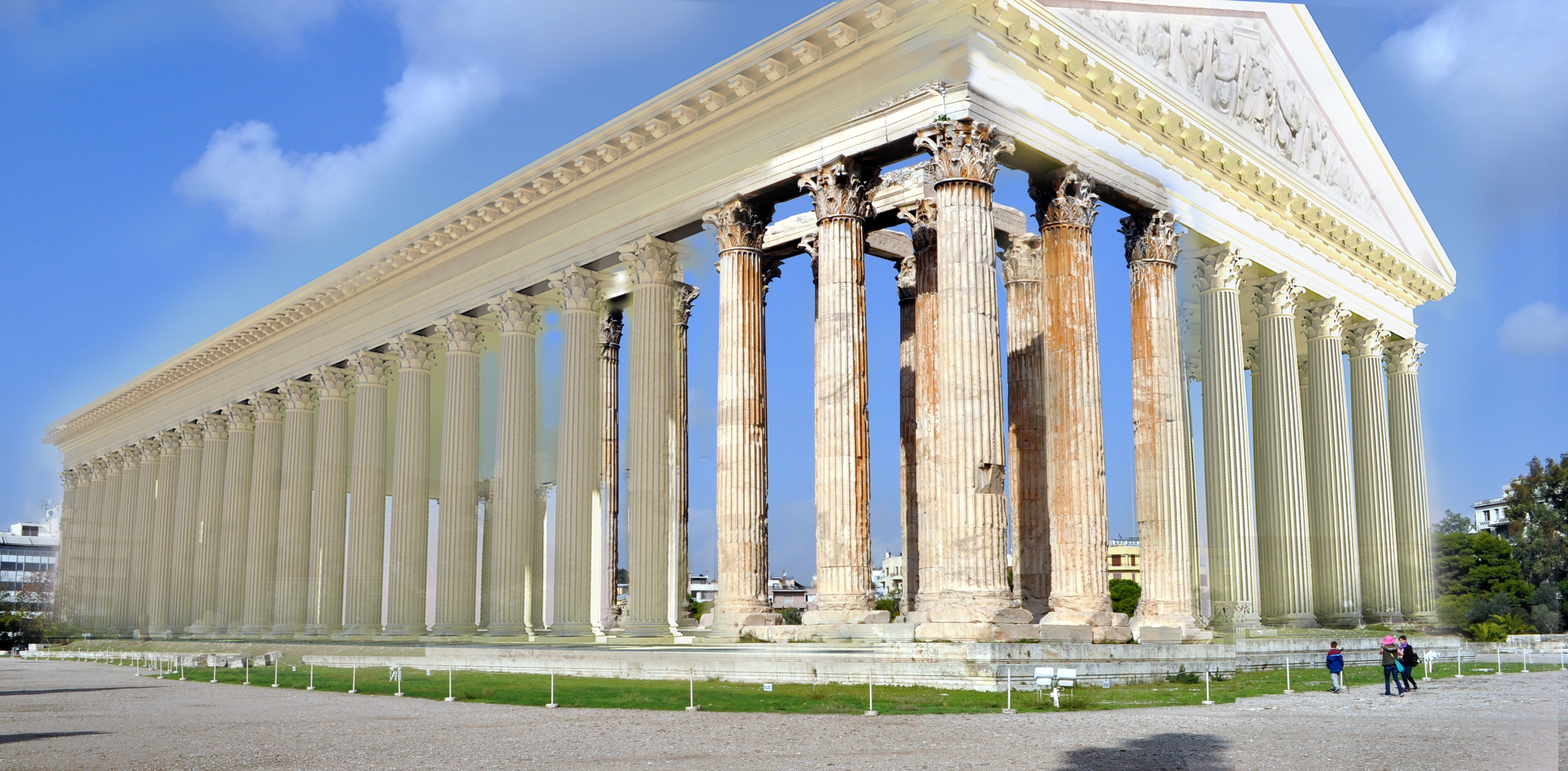 Reconstitution of the Temple of Olympian Zeus, Athens.